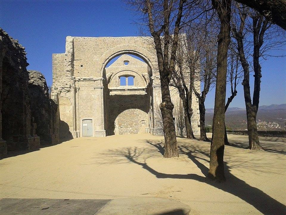 Crekvina